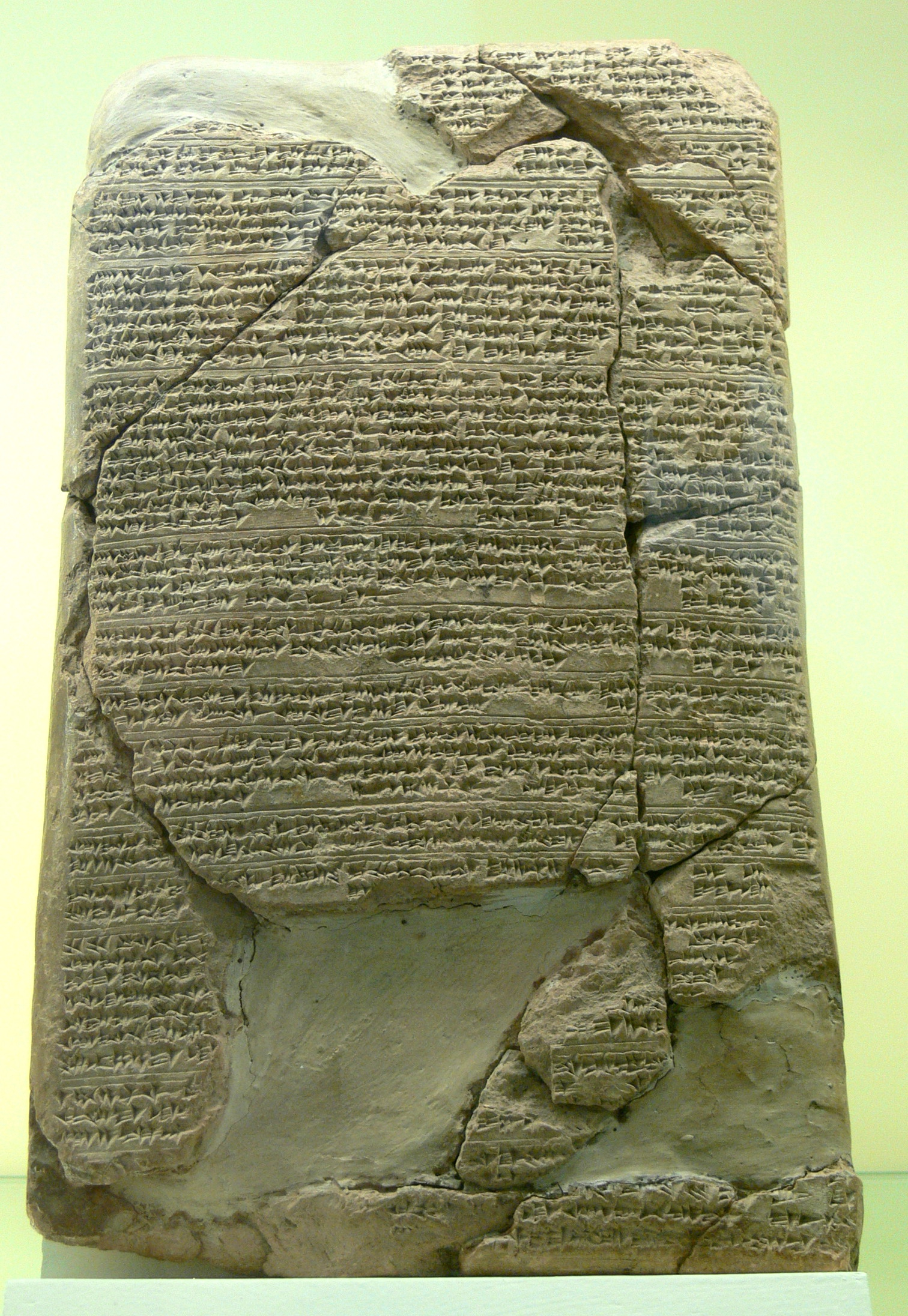 Museum of Ancient Near East ( Berlin ). Clay tablet with cuneiform letter of king Tushratta of Mitanni ( 1370 BC ).